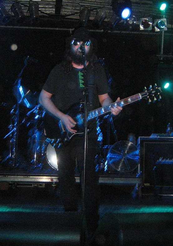 Daron Malakian (with Scars on Broadway) on September 3, 2008.